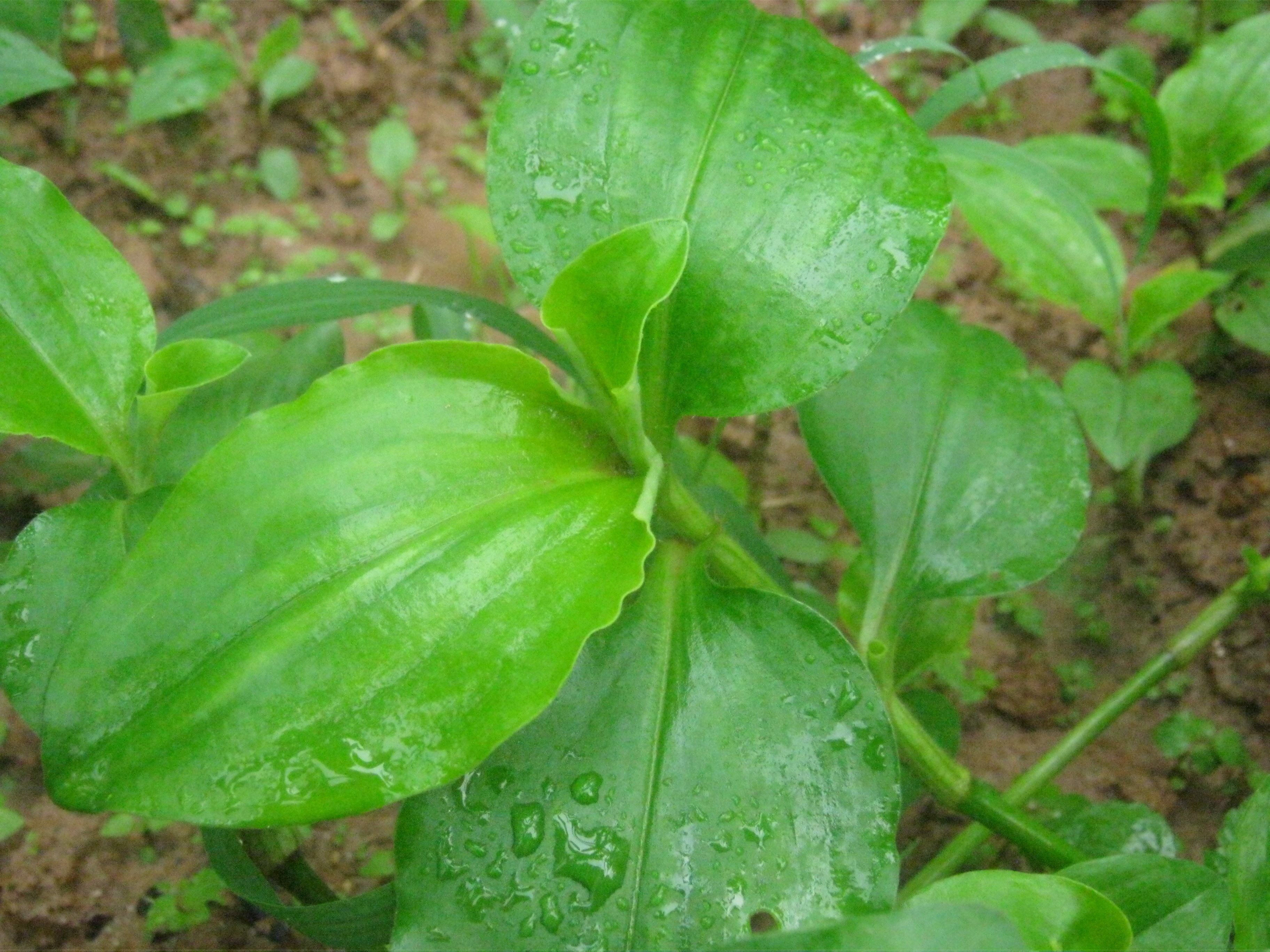 Commelina benghalensis in Panchkhal Valley in Kavre District, Nepal.